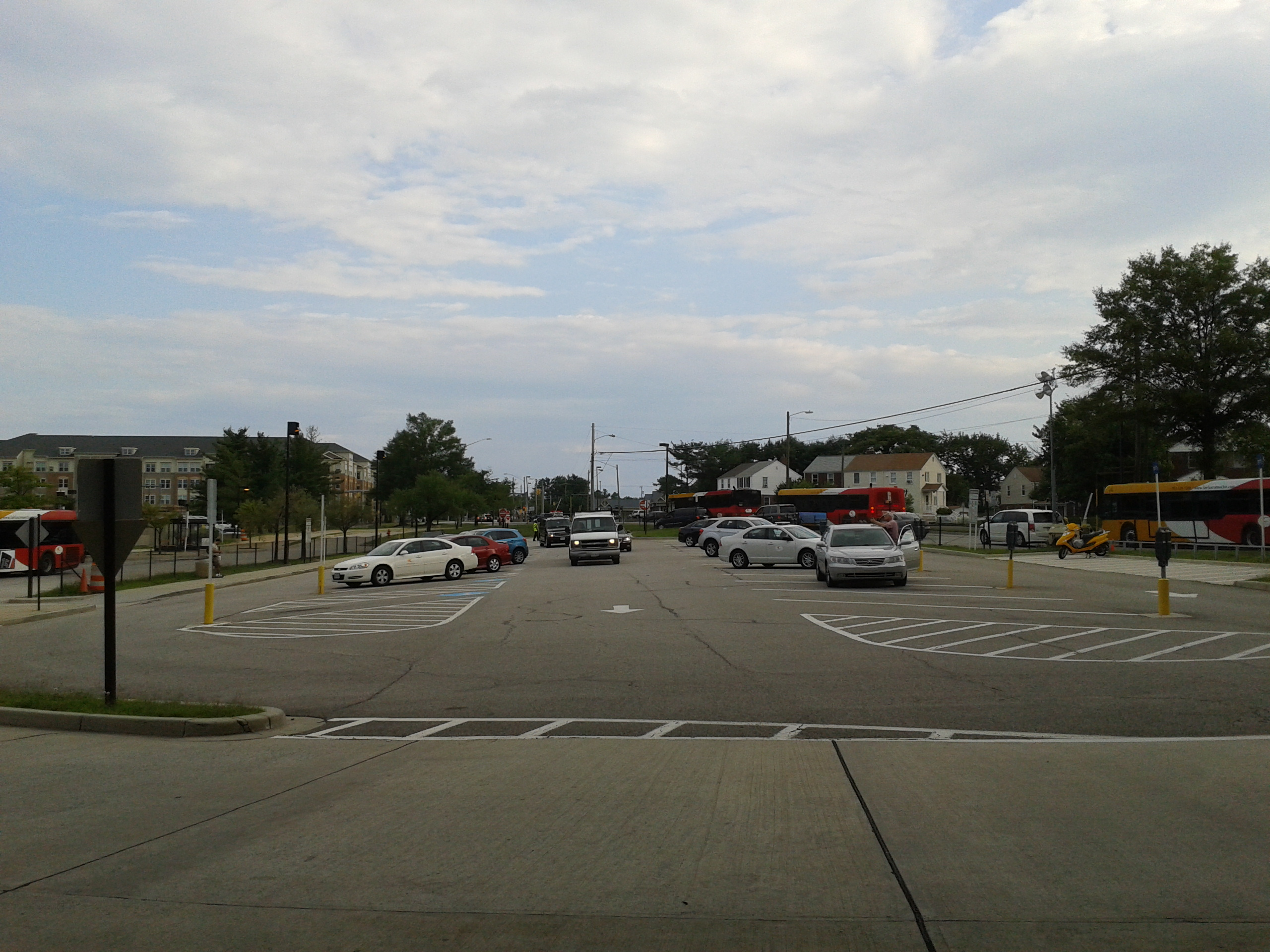 The site of the Civil War-era Fort Lyon in Fairfax County, Virginia; today the kiss-and-ride of Huntington Metro station is located on the site of the fort.